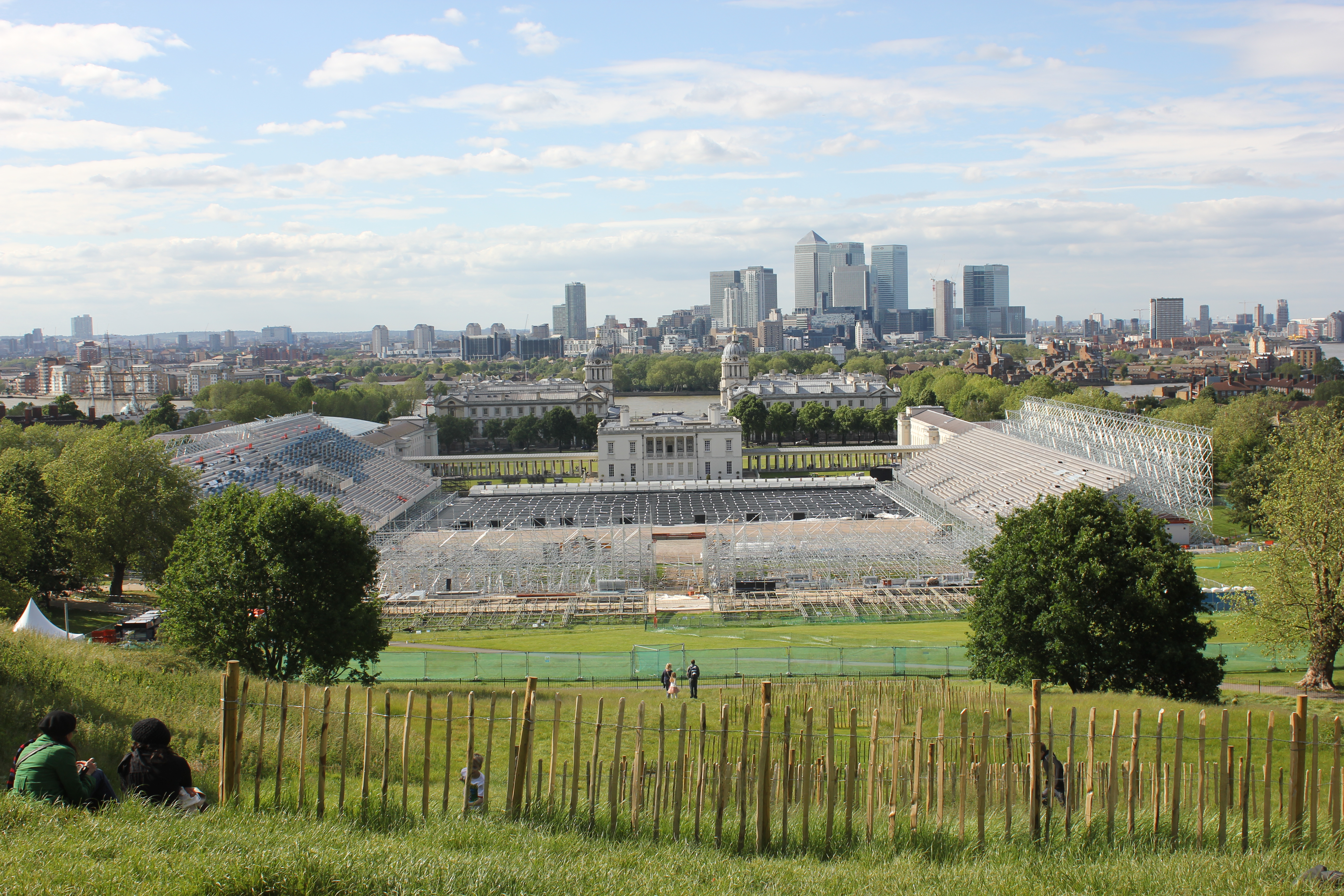 Equestrian arena in Greenwich Park from south, looking towards Queen's House and Canary Wharf. Venue for Equestrian sports at the 2012 Summer Olympics — and venue for the pentathlon archery component, one of the five Modern pentathlon events at the Summer Olympics.